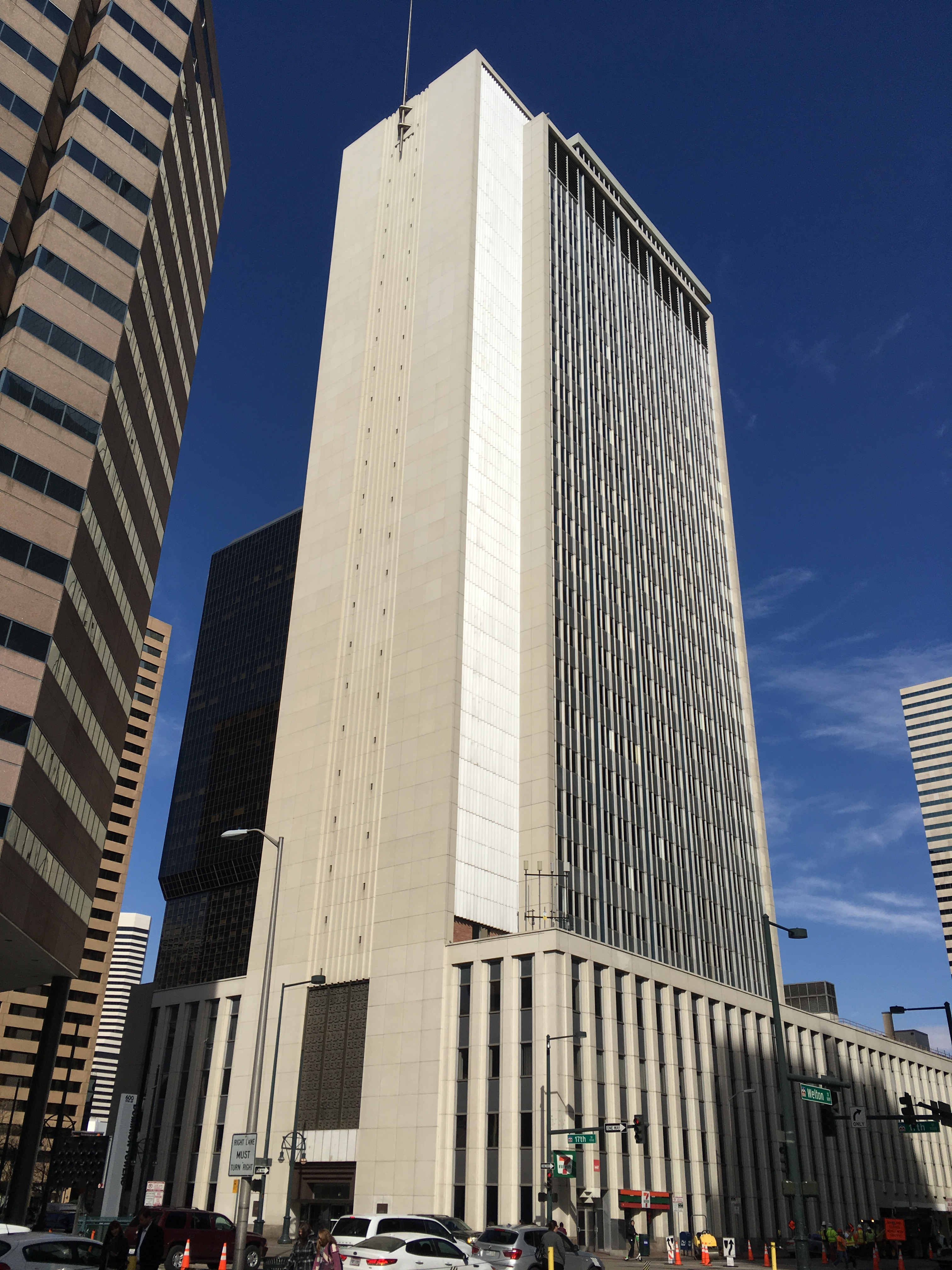 Photo of 621 17th Street, formerly the First Interstate Tower South (built: 1957)